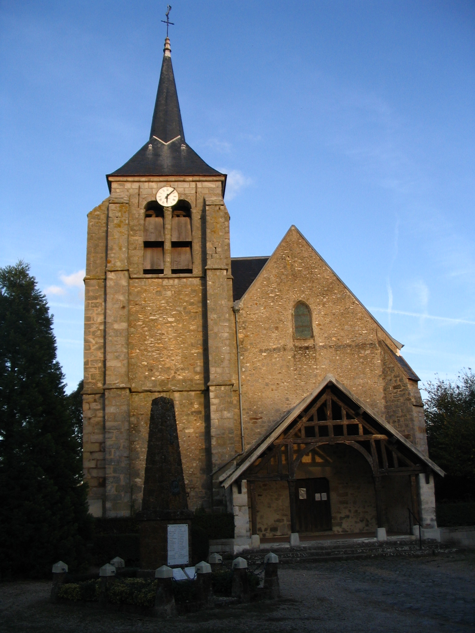 The Roman Catholic church of Crisenoy, Seine-et-Marne, France.